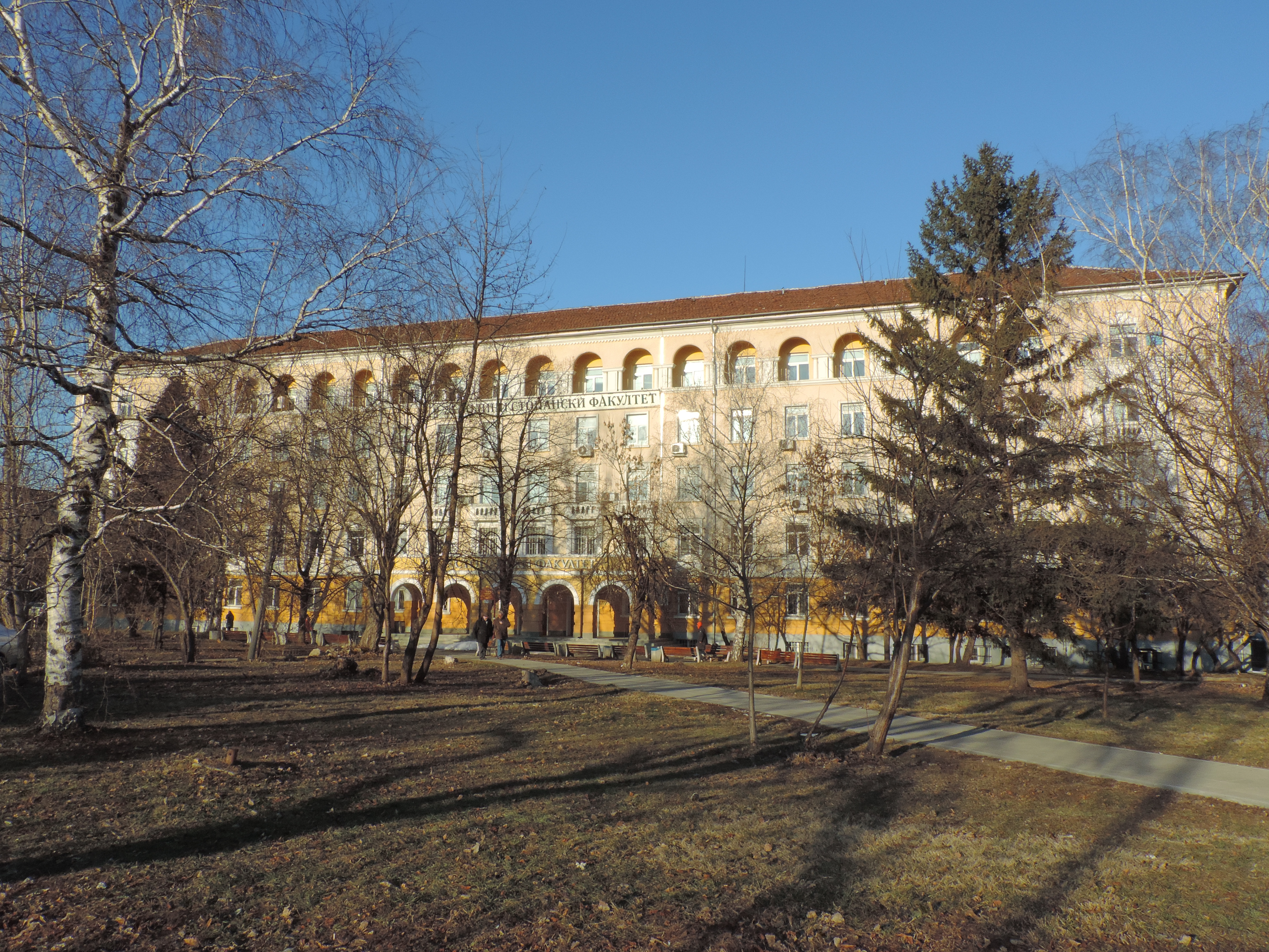 Faculty of Economics and Business Administration, Sofia University